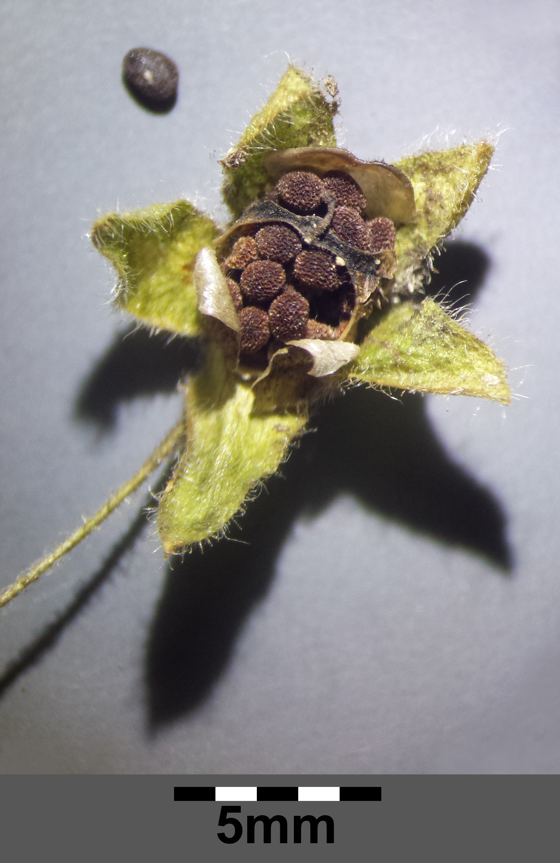 Fruit, opening with two caps Taxonym: Kickxia spuriass Fischer et al. EfÖLS 2008 ISBN 978-3-85474-187-9 Location: near Michaelibründl at Michelberg, district Korneuburg, Lower Austria - ca. 330 m a.s.l. Habitat: field